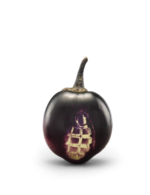 Art work made by Richard Conte.